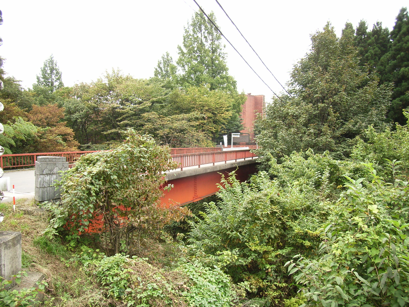 Nkka Bridge. A bridge front of the Miyagi Factory of Nikka Whisky Distilling over Hirose River. Sendai, Miyagi prefecture, Japan.